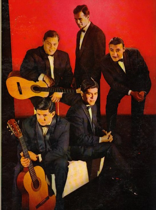 Los Trovadores. Argentina. Folk group. Members: up from left to right: Sergio Ferrer, Eduardo Gómez & Francisco Romero; down from left to right: Héctor E. Anzorena, Carlos José Pino